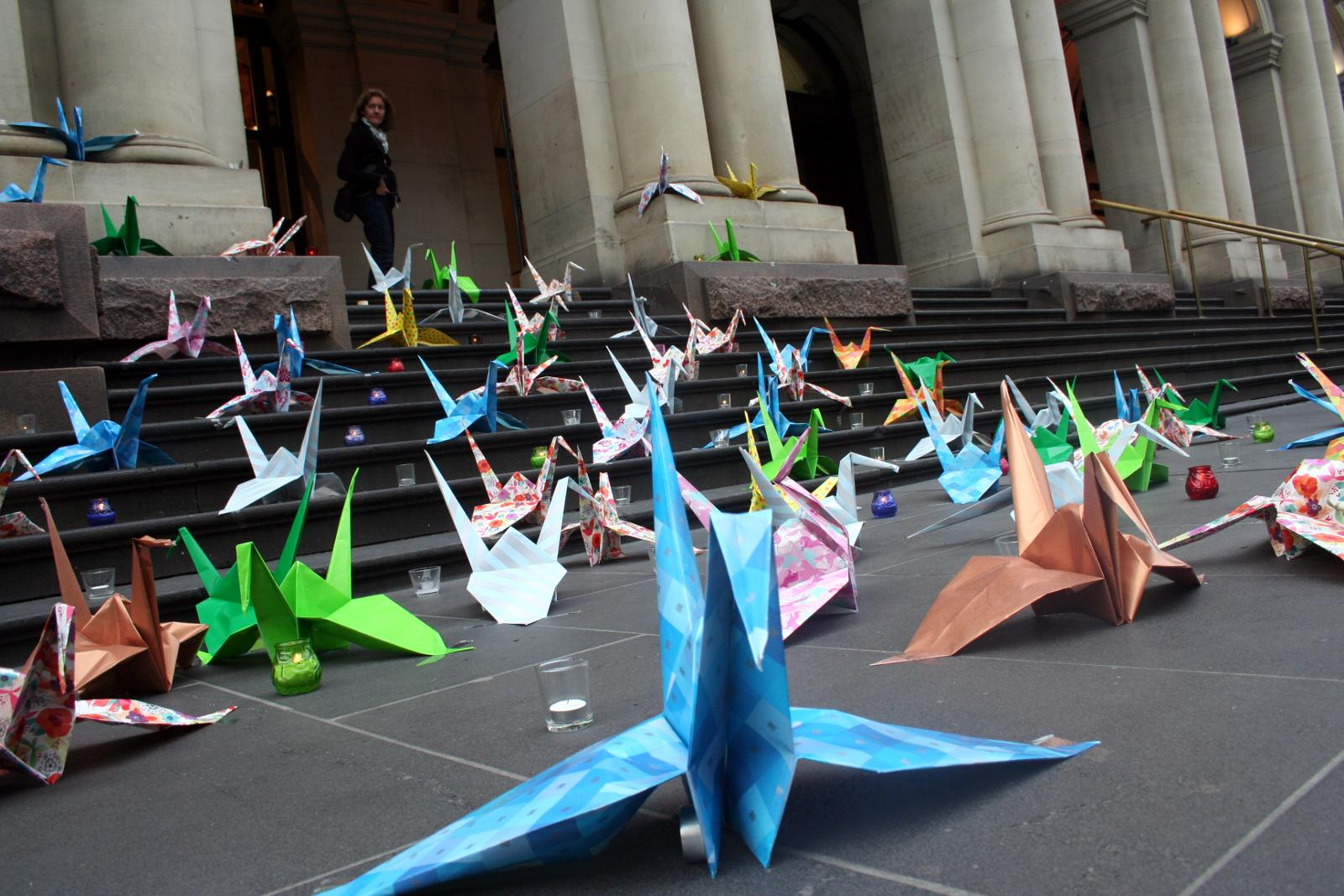 Peace Cranes on the GPO steps - Melbourne Vigil for Japan. Melbourne Vigil forthe people of Japan suffering the effects of the Magnitude 9.0 Earthquake, Tsunamis, and an escalating nuclear crisis. The vigil was held at the old GPO in Bourke Street Mall on March 17, 2011. The candlelight vigil was to honour the victims of this terrible tragedy, and to show concern for the safety of those exposed to radioactivity from the Fukushima nuclear power plant. The vigil was organised by the Medical Association for the prevention of war, the International Campaign to Abolish nuclear Weapons, and Japanese for Peace. (original text)